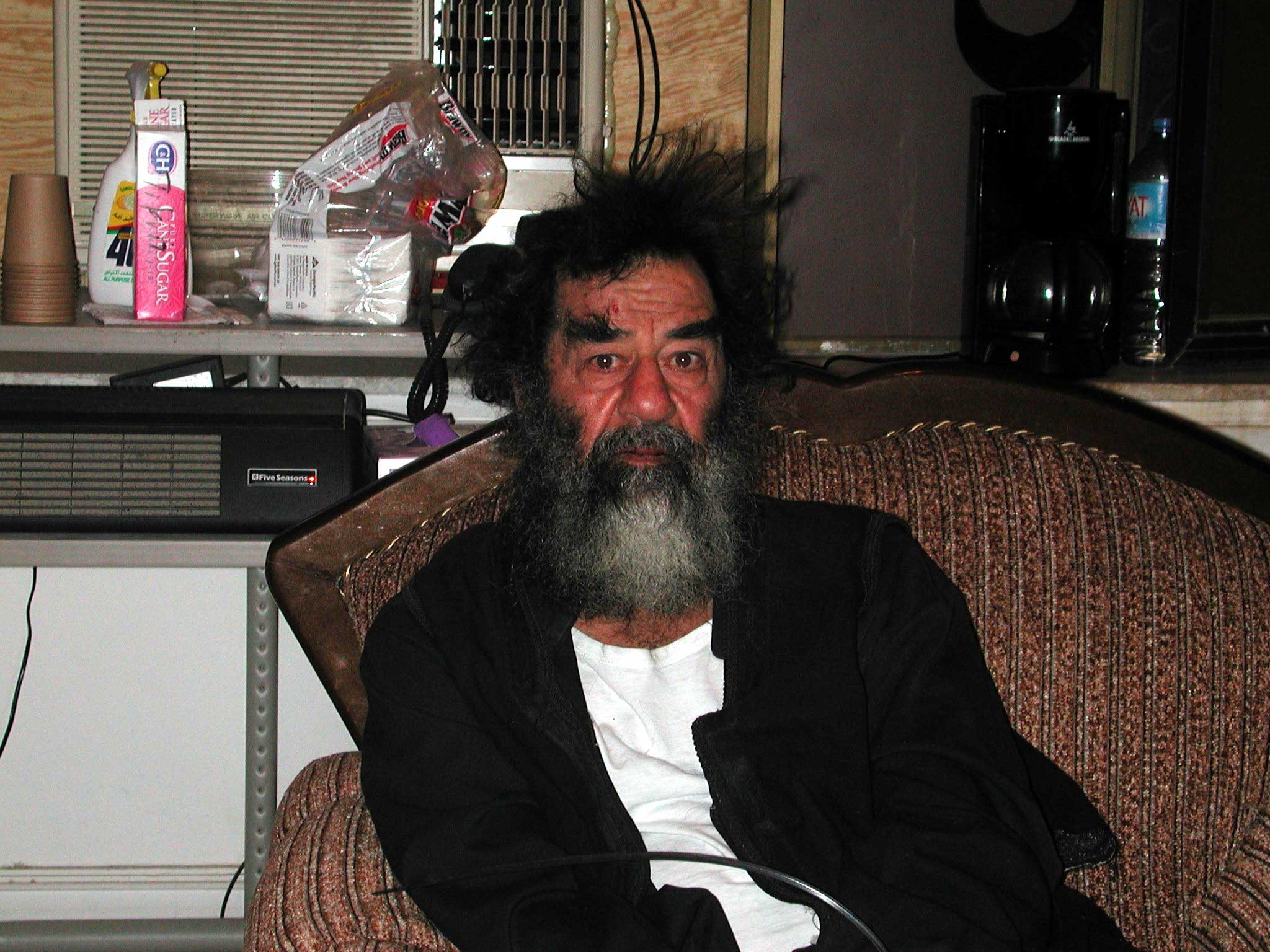 Leaked image of Saddam Hussein taken by an anonymous member of the U.S. Military. Pictures Hussein in U.S. Custody in an undisclosed location in Iraq.